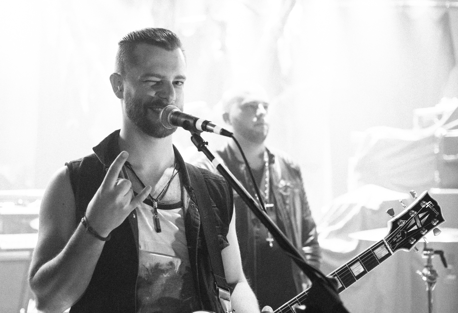 Dan Drogosh